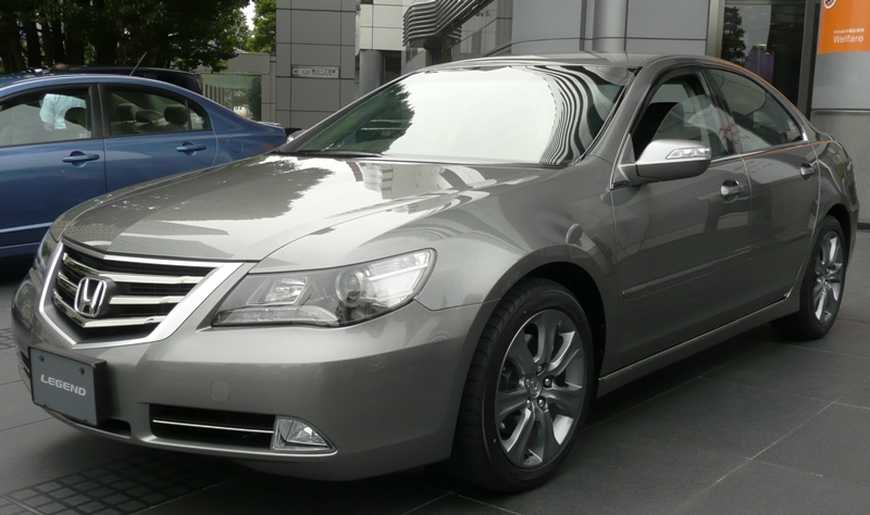 4th generation Honda Legend after restyling (2008)